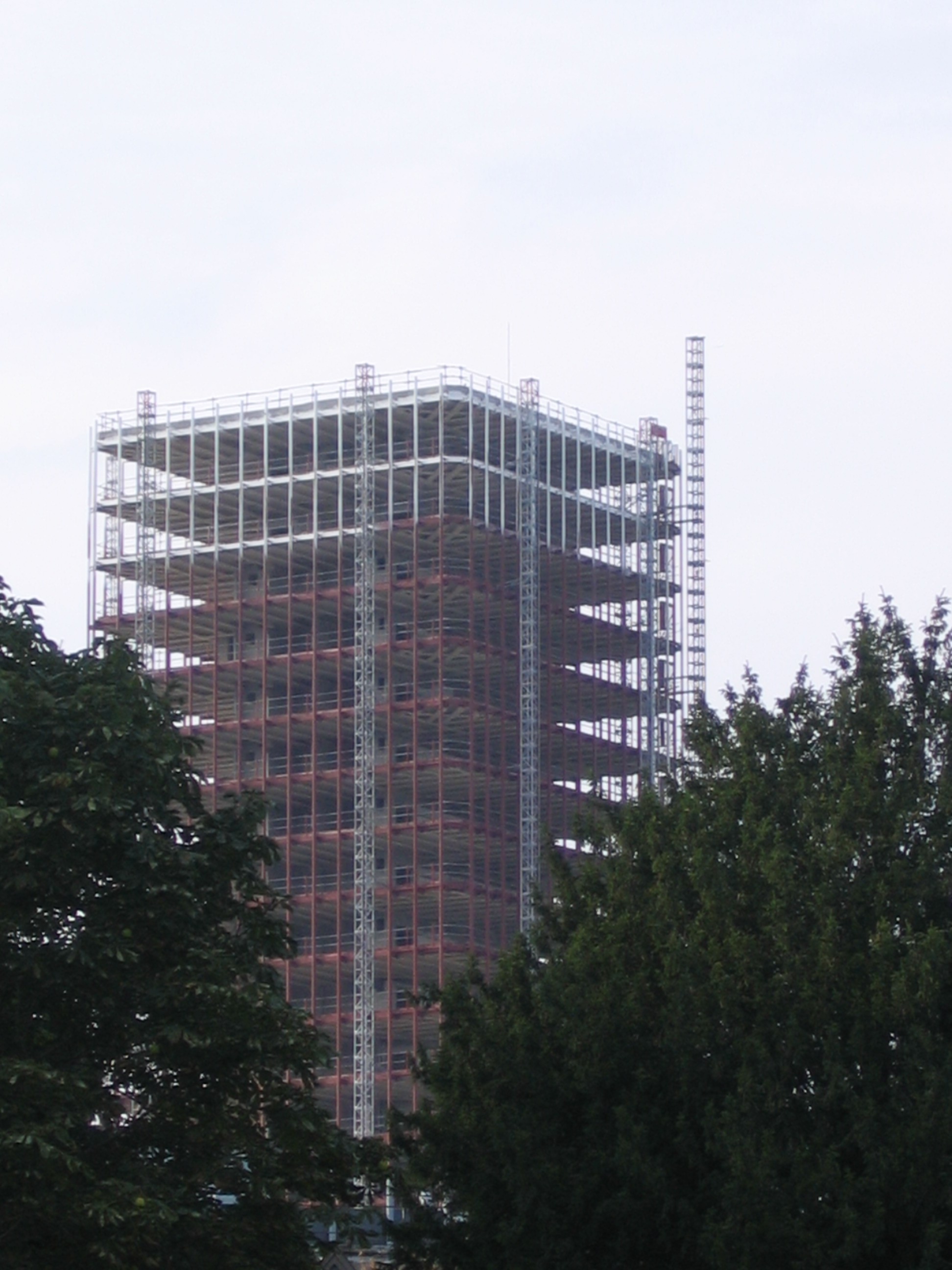 The Jussieu Tower